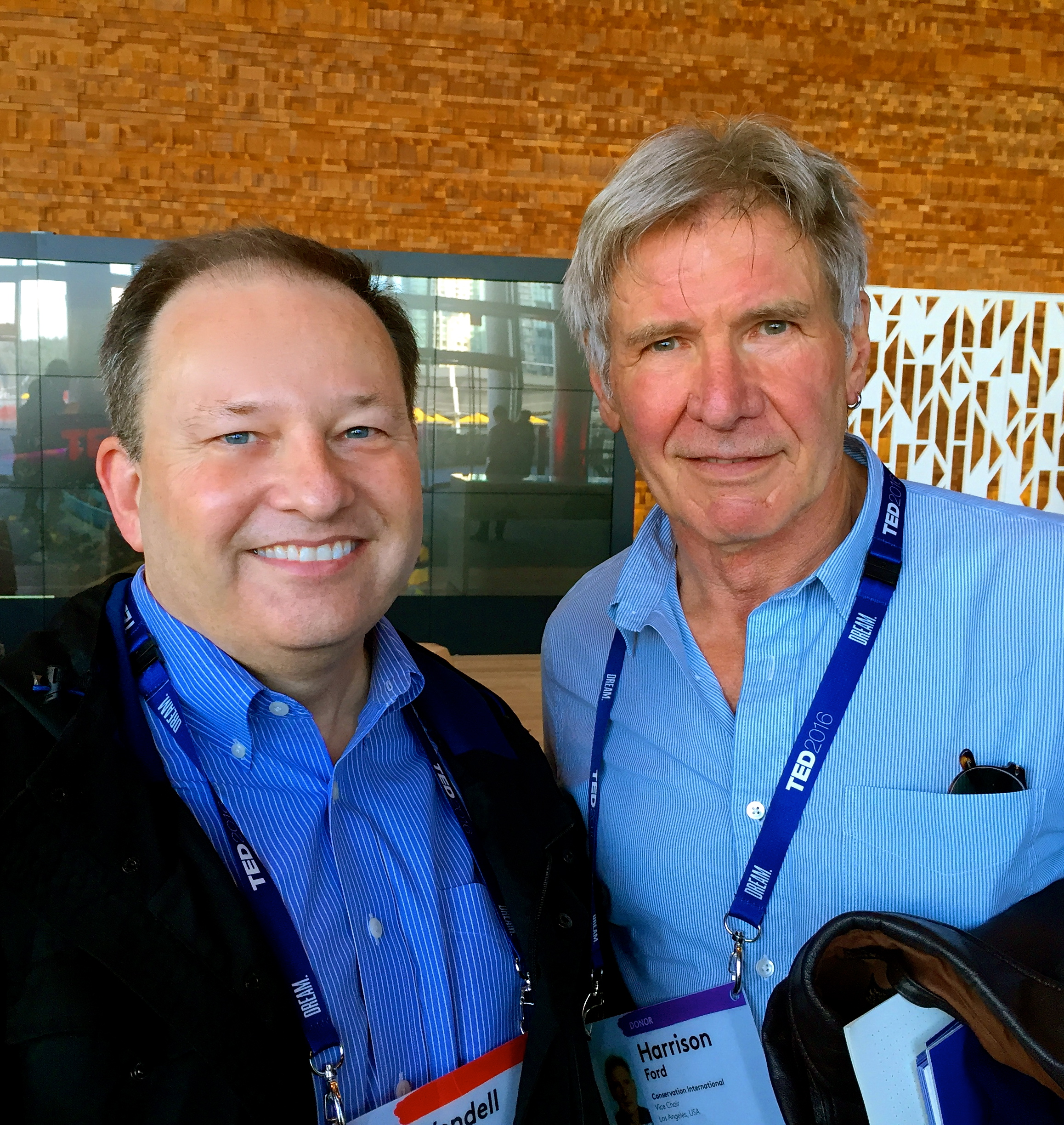 Actor Harrison Ford and tech entrepreneur Wendell Brown at the 2016 TED conference in Vancouver, Canada